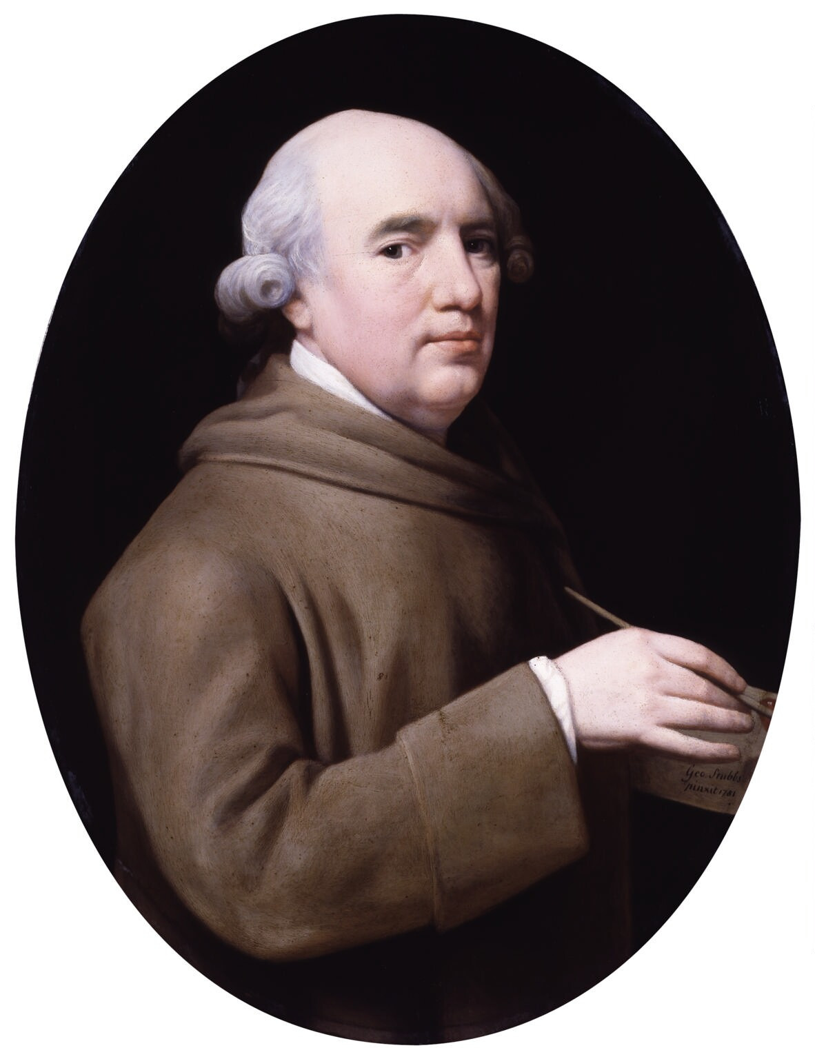 Self-portrait